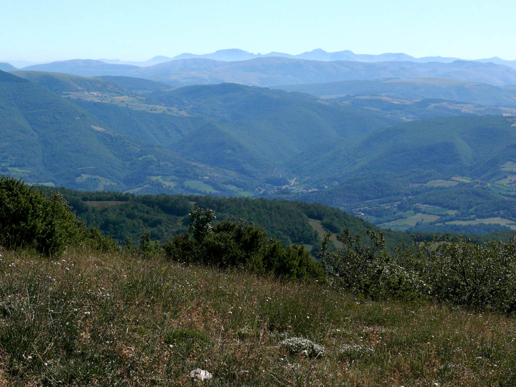 View from Monte Subasio hilltop, looking east